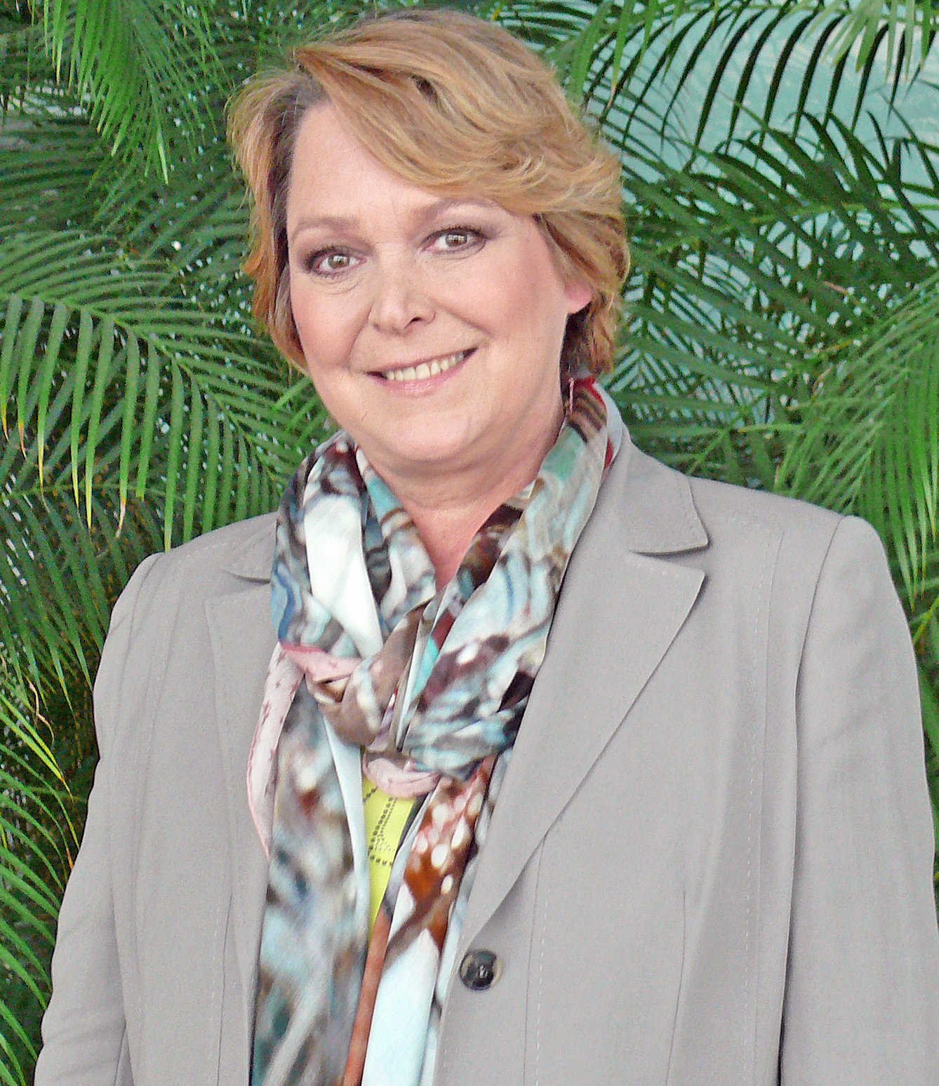 Television presenter and artist Ramona Leiss